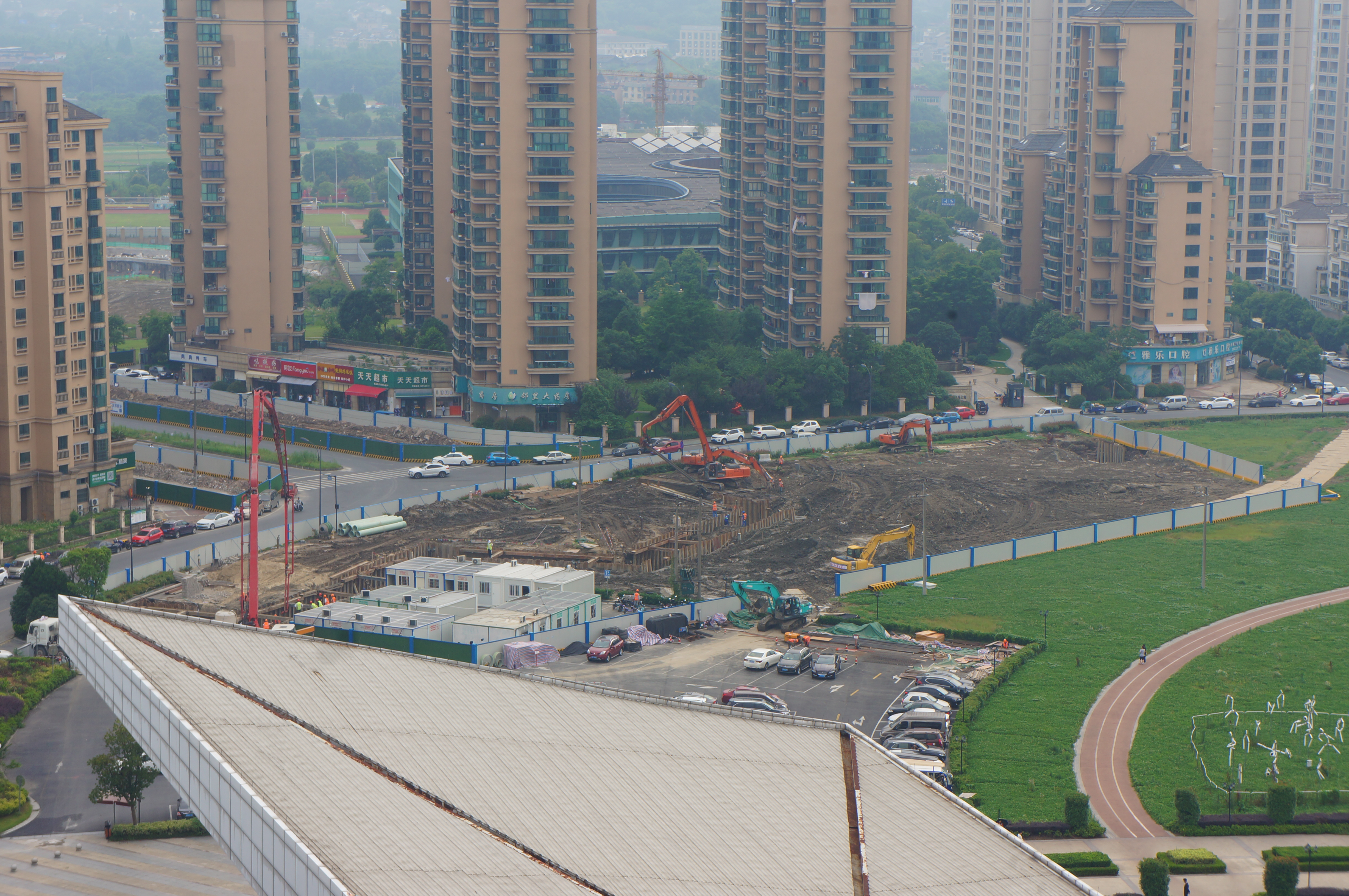 201806 Metro Construction at Tianducheng